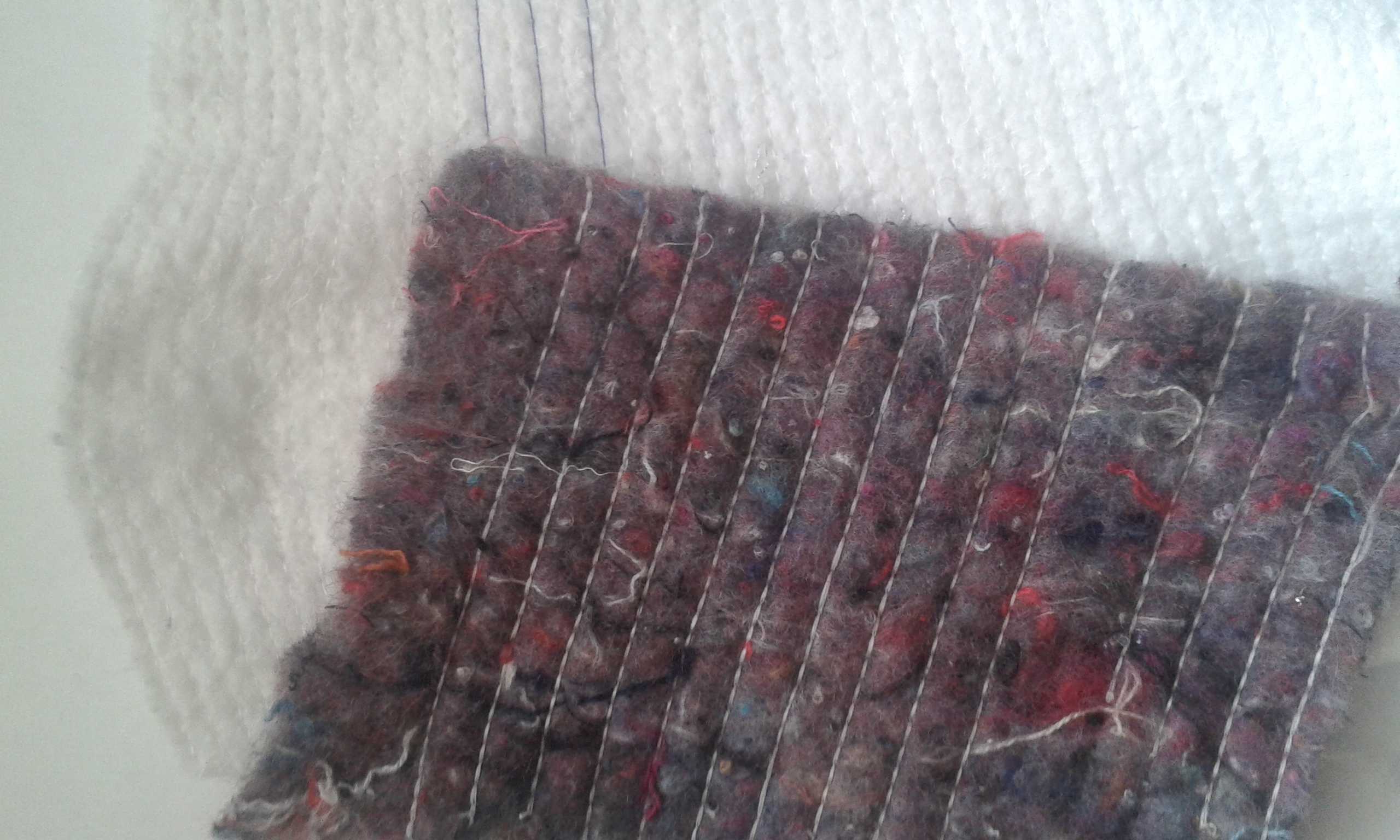 Maliwatt products